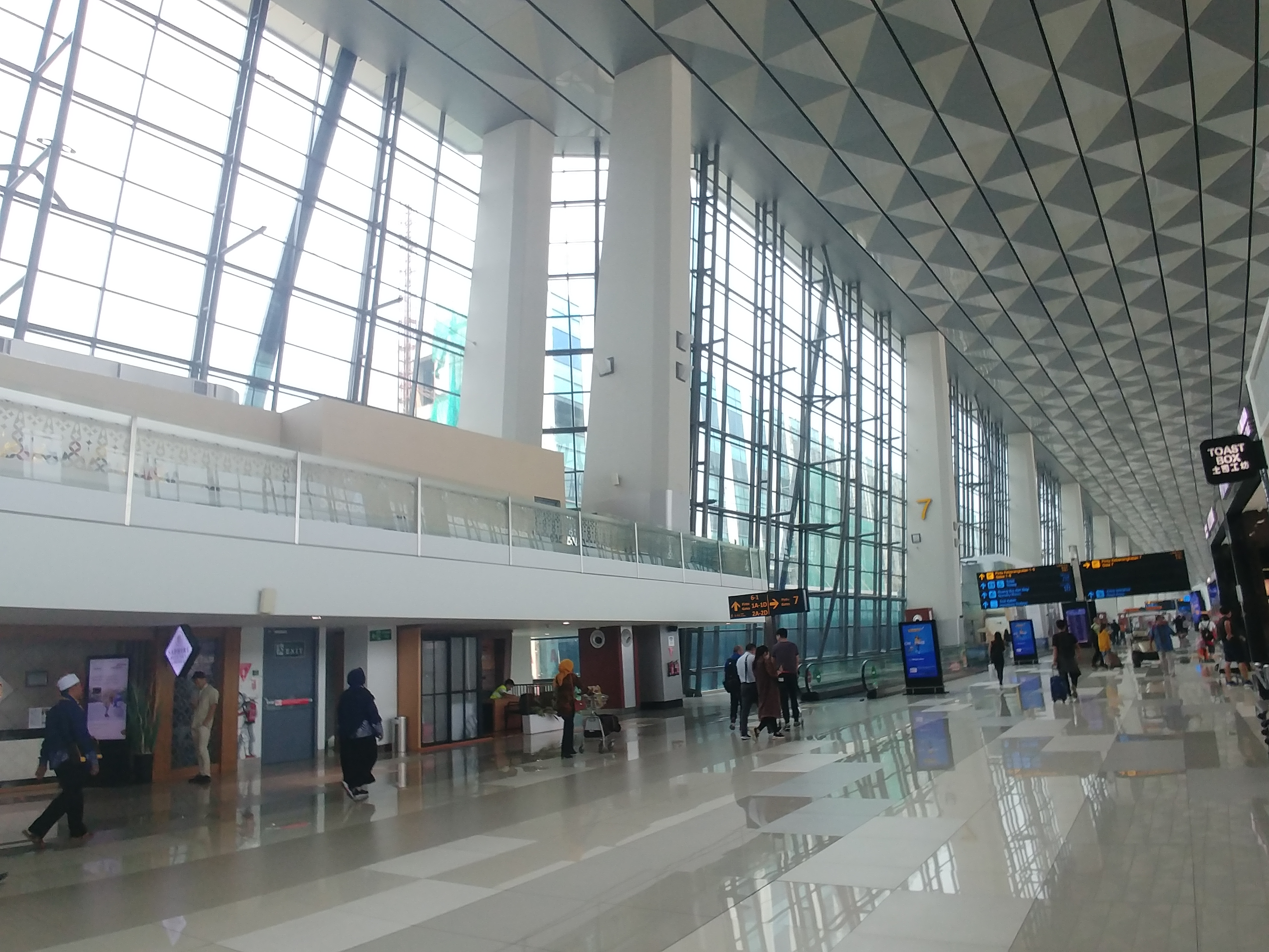 The terminal lounge of the Departure Area of the Soekarno-Hatta International Airport Terminal 3.